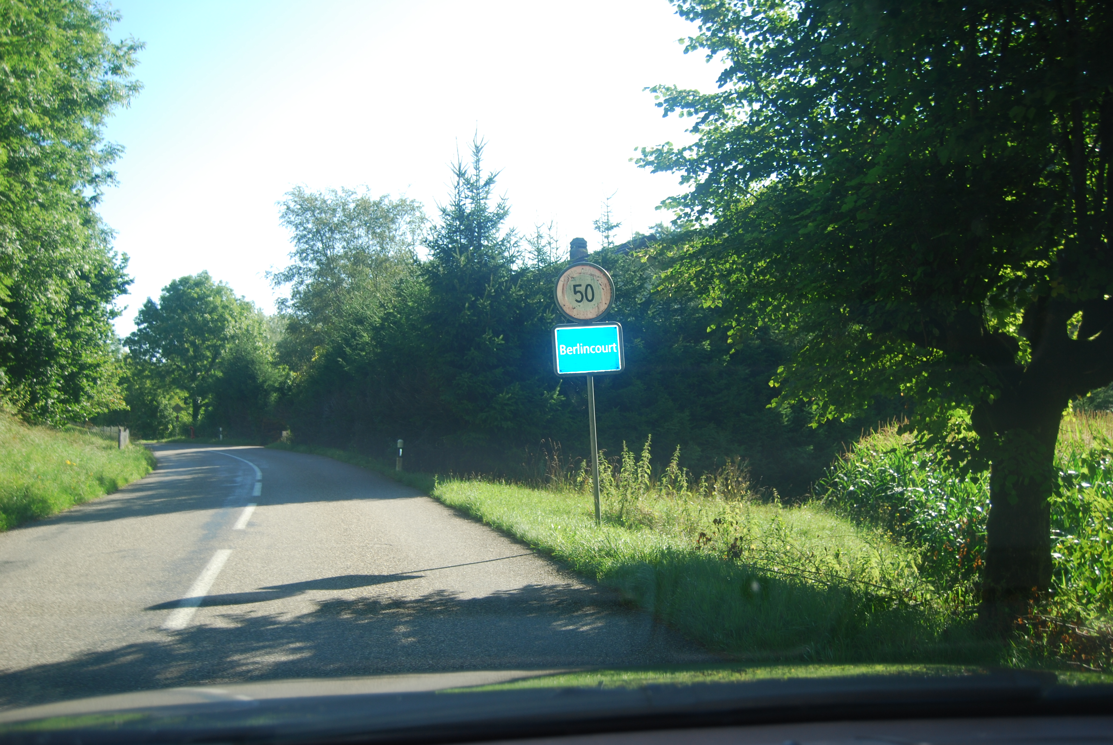 Village entry of Berlincourt, municipality of Bassecourt, canton of Jura, SwitzerlandEsperanto: Vilaĝeniro de Berlincourt, komunumo de Bassecourt, Kantono Ĵuraso, Svislando